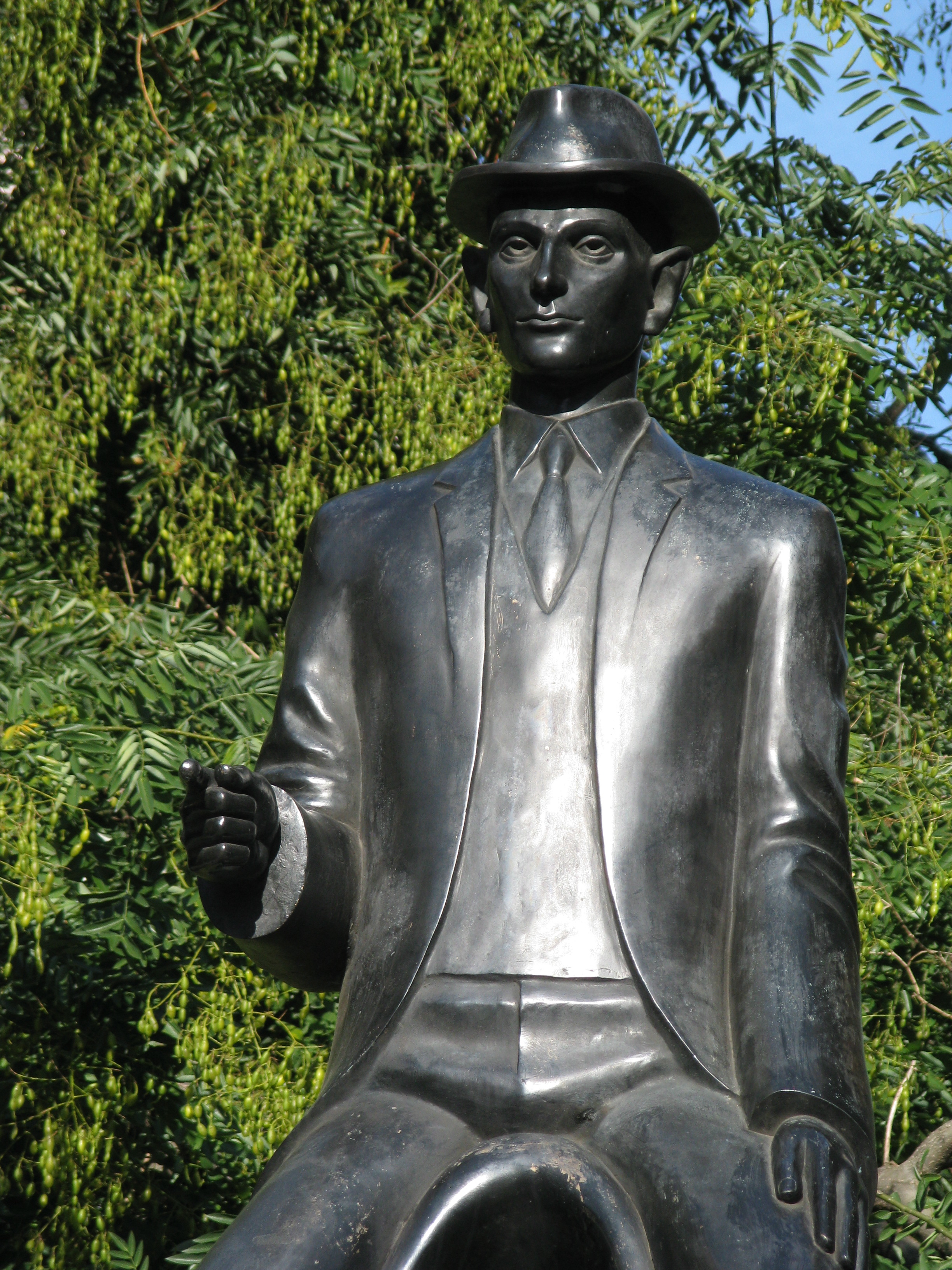 Franz Kafka statue by Jaroslav Róna in Prague.